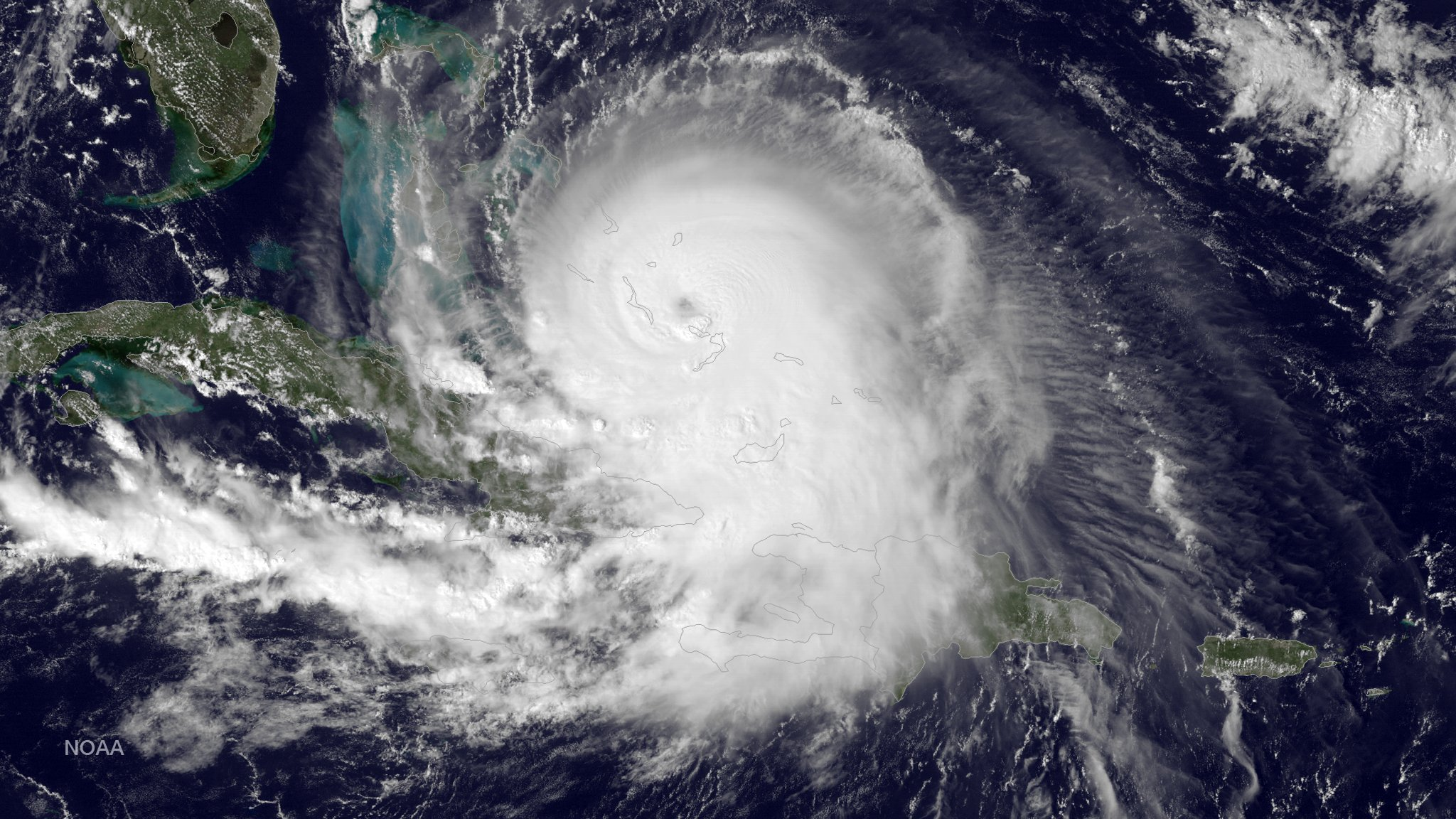 Hurricane Joaquin as seen by NOAA's GOES-13 satellite at 19:00 UTC on October 1, 2015. At the time of this image, Joaquin was a Category 4 hurricane with maximum sustained winds of 130 mph (215 km/h).